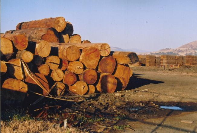 Tasmania, Eucalyptus regnans logs near Hobart. The largest to the right is a metre in diameter.